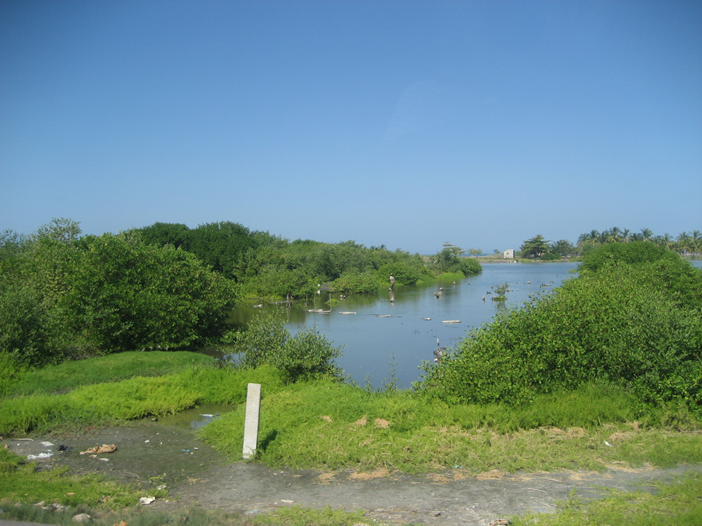 image depicting Cienaga, Colombia. Taken by user:f3rn4nd0 for wikipedia and sibling projects only. Cienaga cienaga